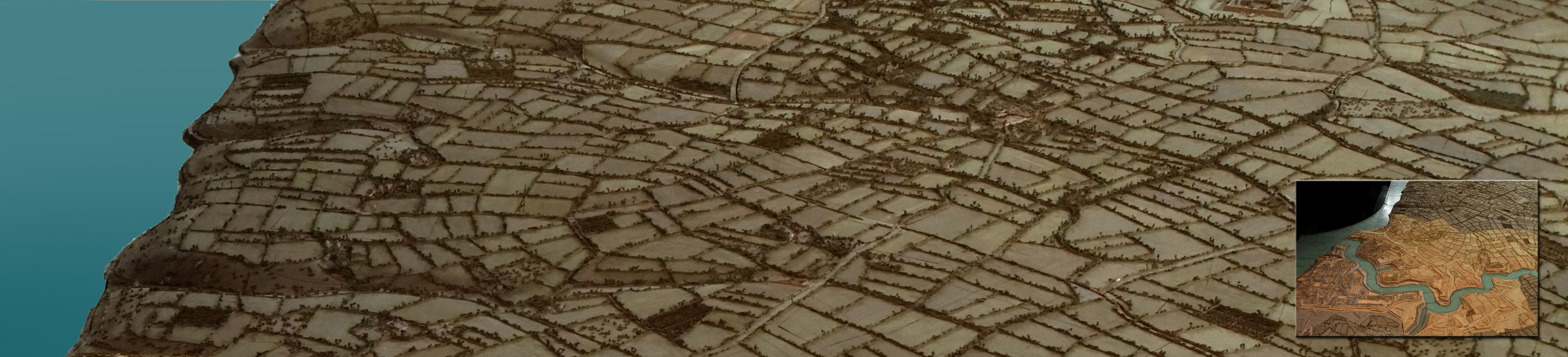 French "relief map" (Plan relief) of Brest's harbour: Detail of the bocage, which still surrounded the city of Brest at this time, close to the fortifications. (The model also shows the port in its 1811 state on the small inset on the right). Scale model built from 1807 to 1811. 1/600th scale